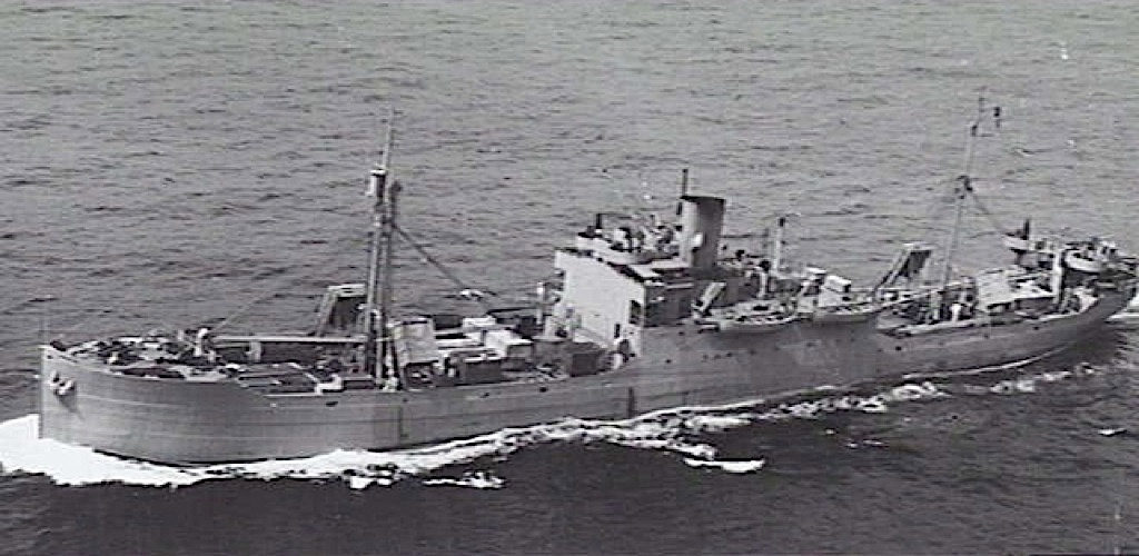 1943-11-04. Aerial port side view of the cargo vessel Grey Lag. Note the 4 inch gun and 20 mm oerlikon aa guns aft. Two more Oerlikons are sited above the bridge. (Naval Historical Collection) "Australian War Memorial notice: Copyright expired - public domain—This term describes material held in the National Collection that is clearly out of the period of copyright protection. Material that has passed out of the period of copyright protection is known as being in the “public domain” and is free of known copyright restrictions."